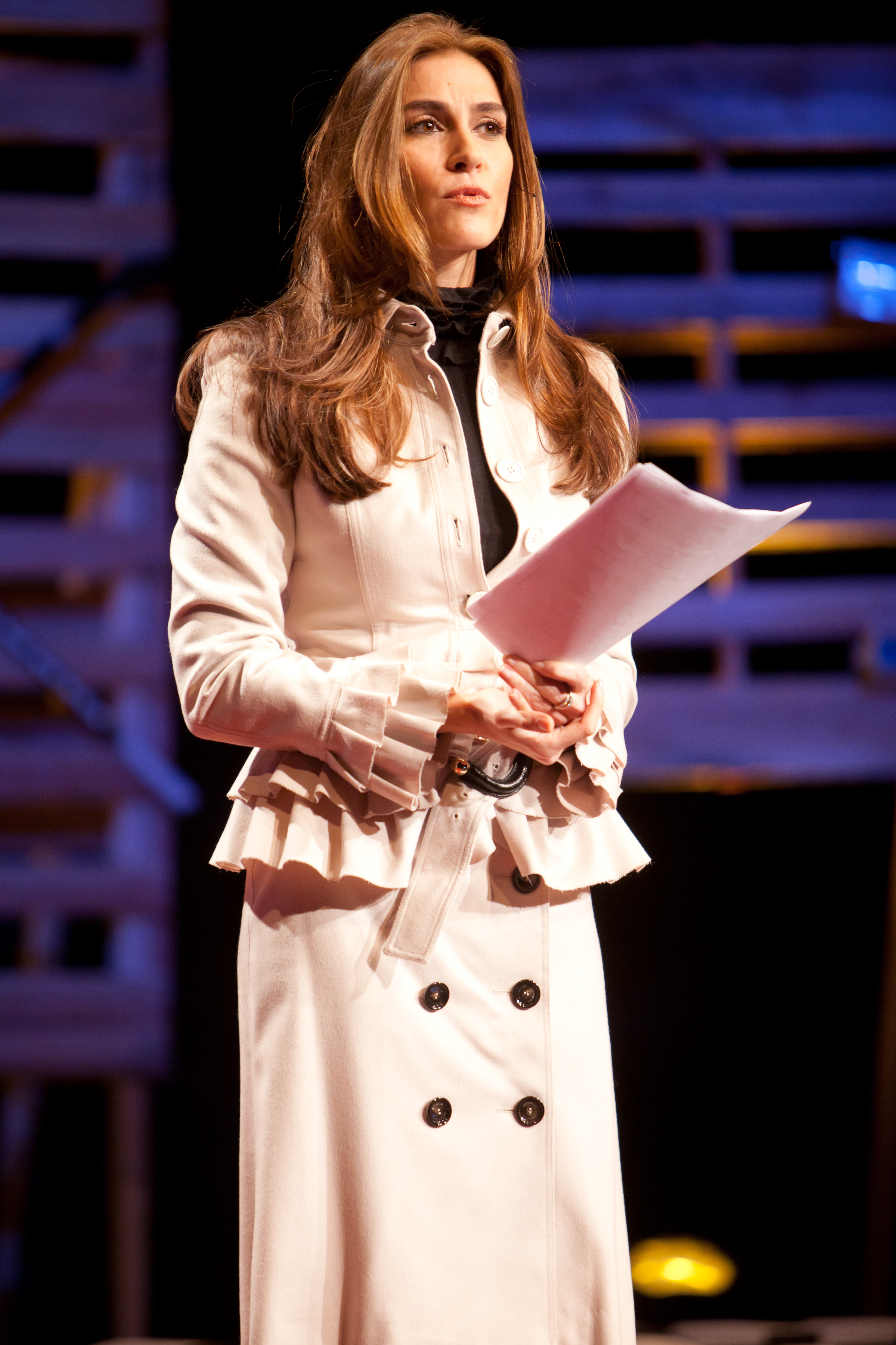 photo by Kris Krüg